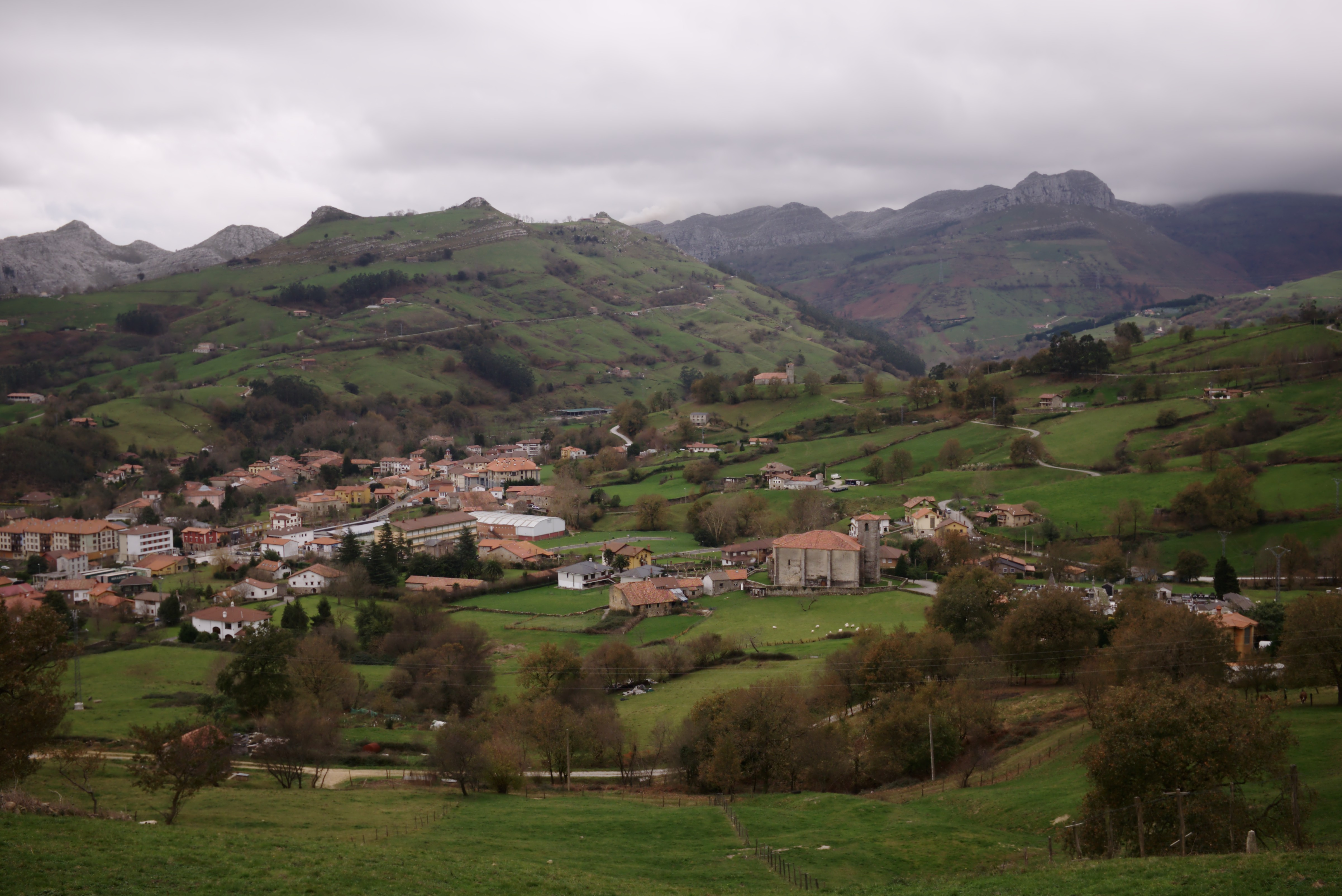 View of Lierganes town, in Cantabria (Spain)